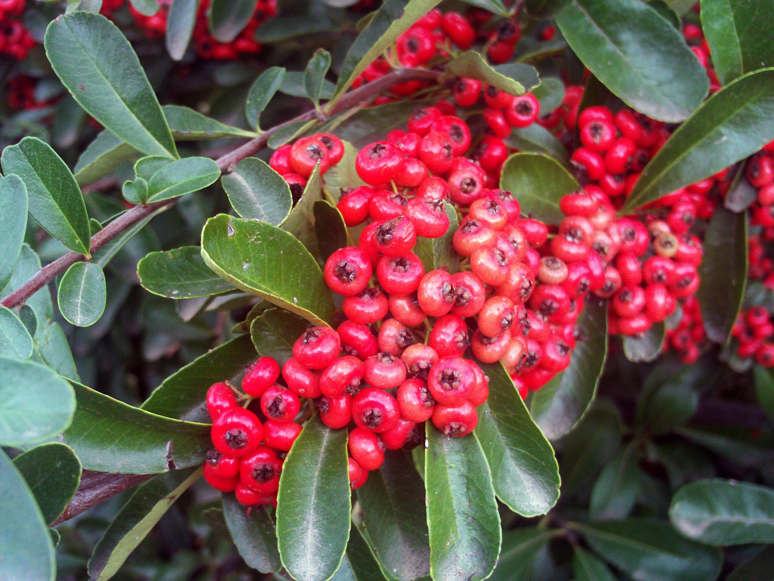 Pyracantha coccinea Fruits Close up Dehesa Boyal de Puertollano, Spain